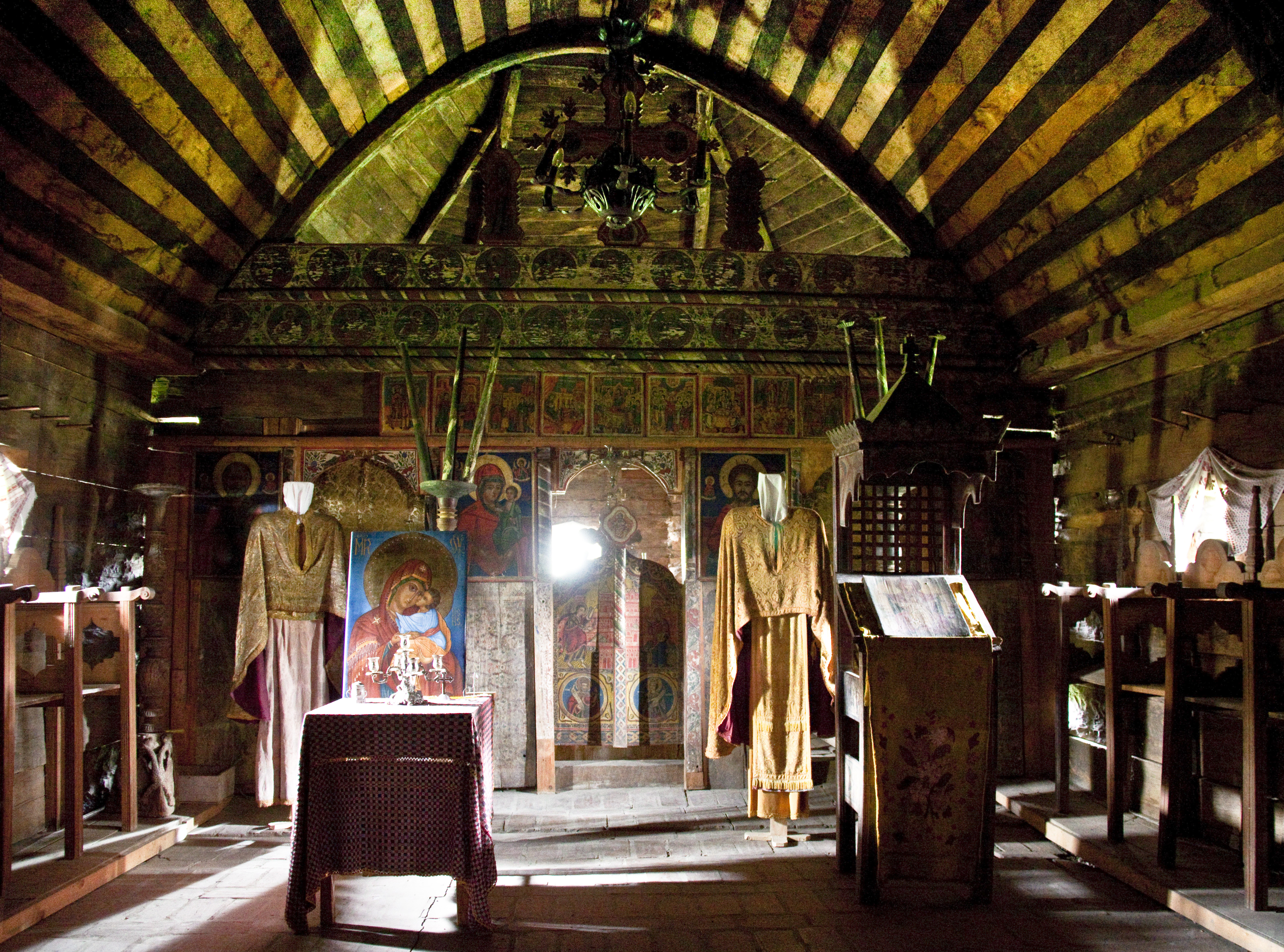 Drăguţeşti in Cotmeana, Argeş county, Romania: the wooden church, at present in the Goleşti Viticulture and Tree Growing Museum.